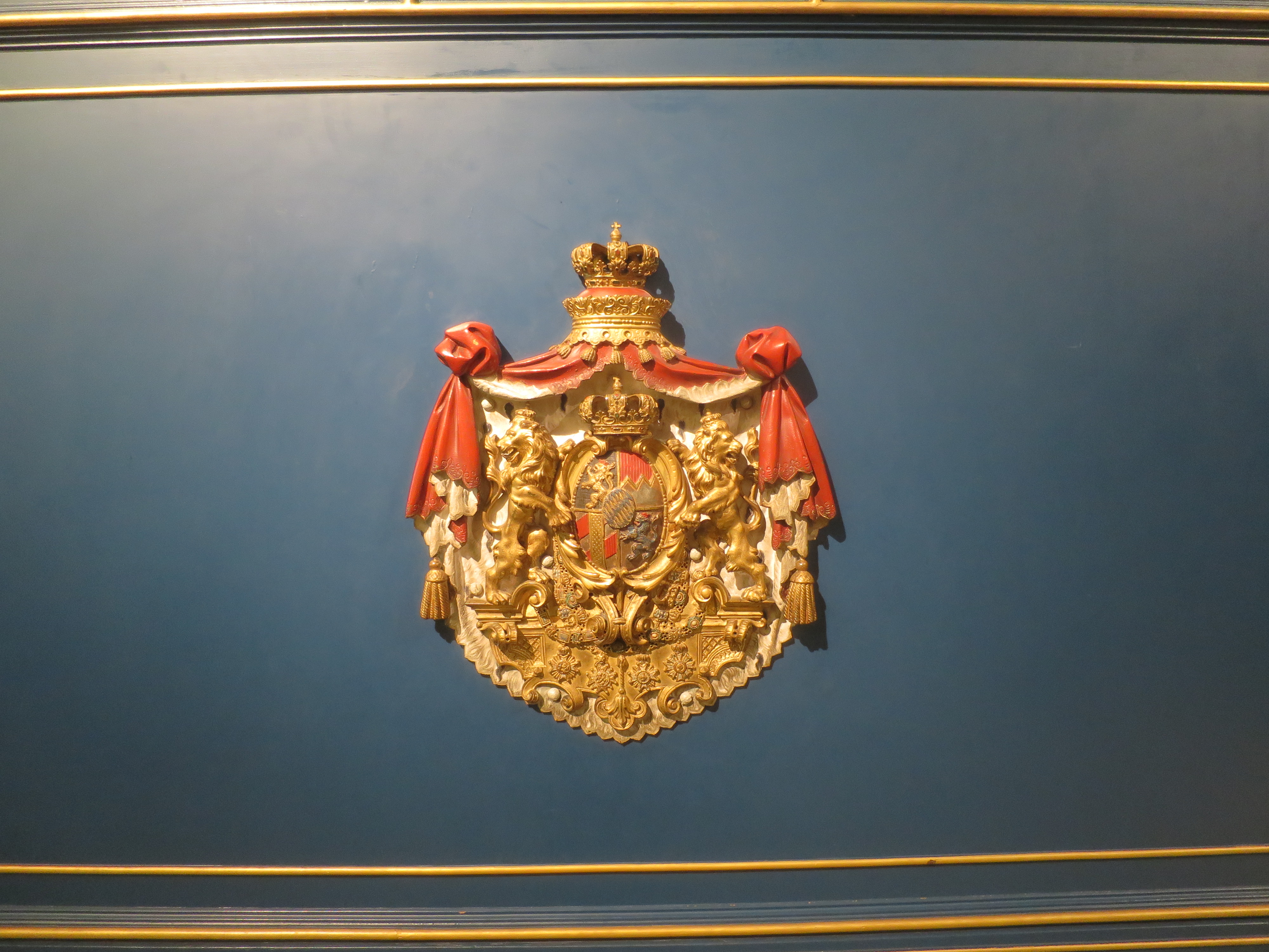 Arms of King Ludwig II. of Bavaria on his saloon